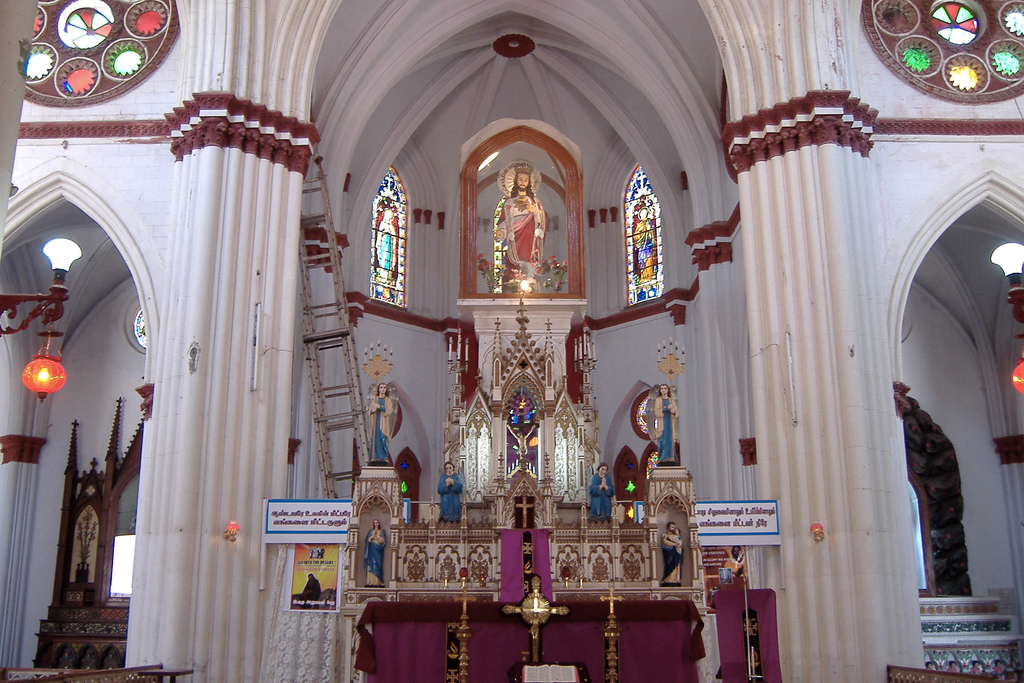 Interior of the Church of the Sacred Heart, Puducherry, India